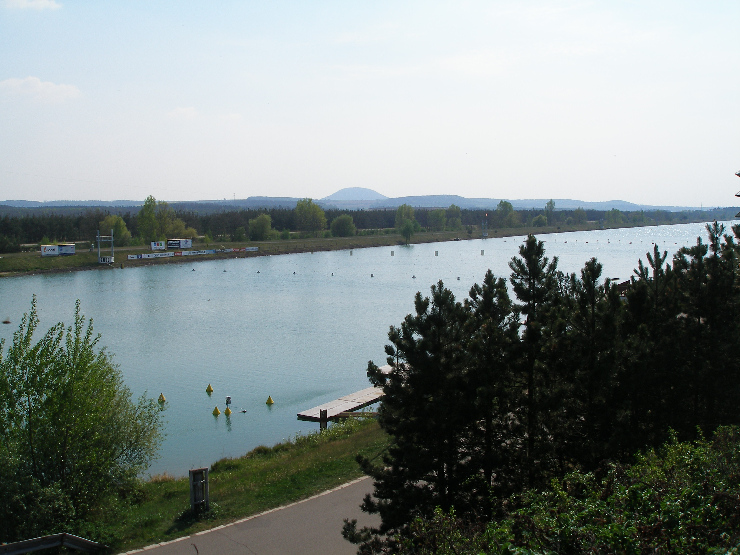 Track rowing canal in Račice.